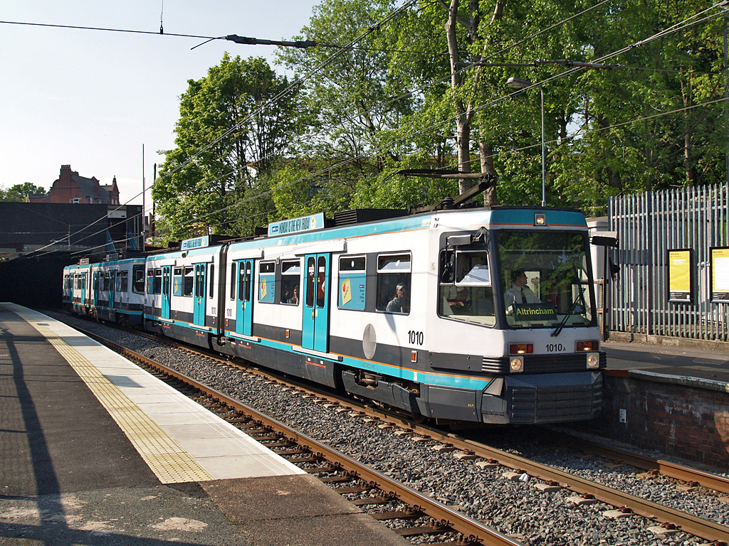 Greater Manchester Metrolink number 1010, an Ansaldo T68 (Phase 1) tram arrives in the inbound platform at Whitefield tram station with a Bury to Altrincham service. Thursday 15th May 2008